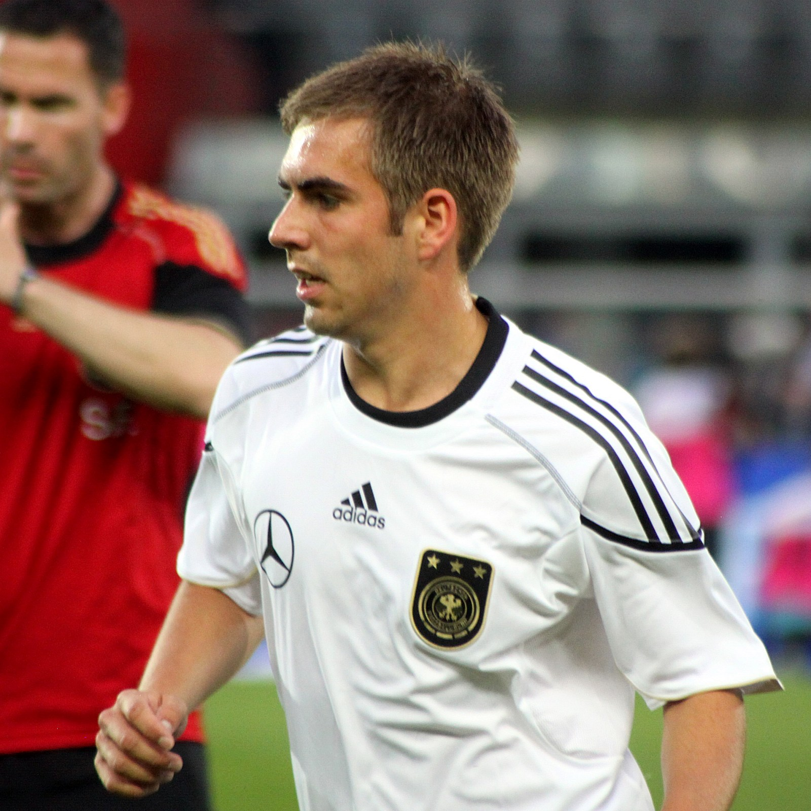 Philipp Lahm (FC Bayern Munich), german national football team - OpenStreetMap(Info)